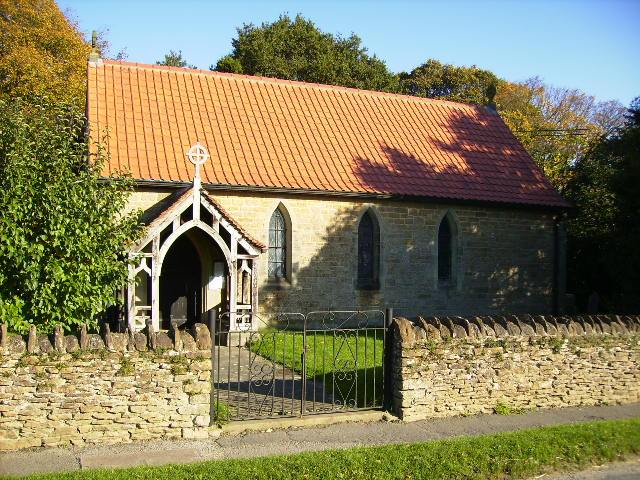 Church of St George the Martyr, Scackleton, North Yorkshire, seen from the southwest